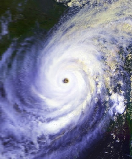 1991 Bangladesh cyclone near peak intensity on April 29 at 0623 UTC. This image was produced from data from NOAA-11, provided by NOAA.